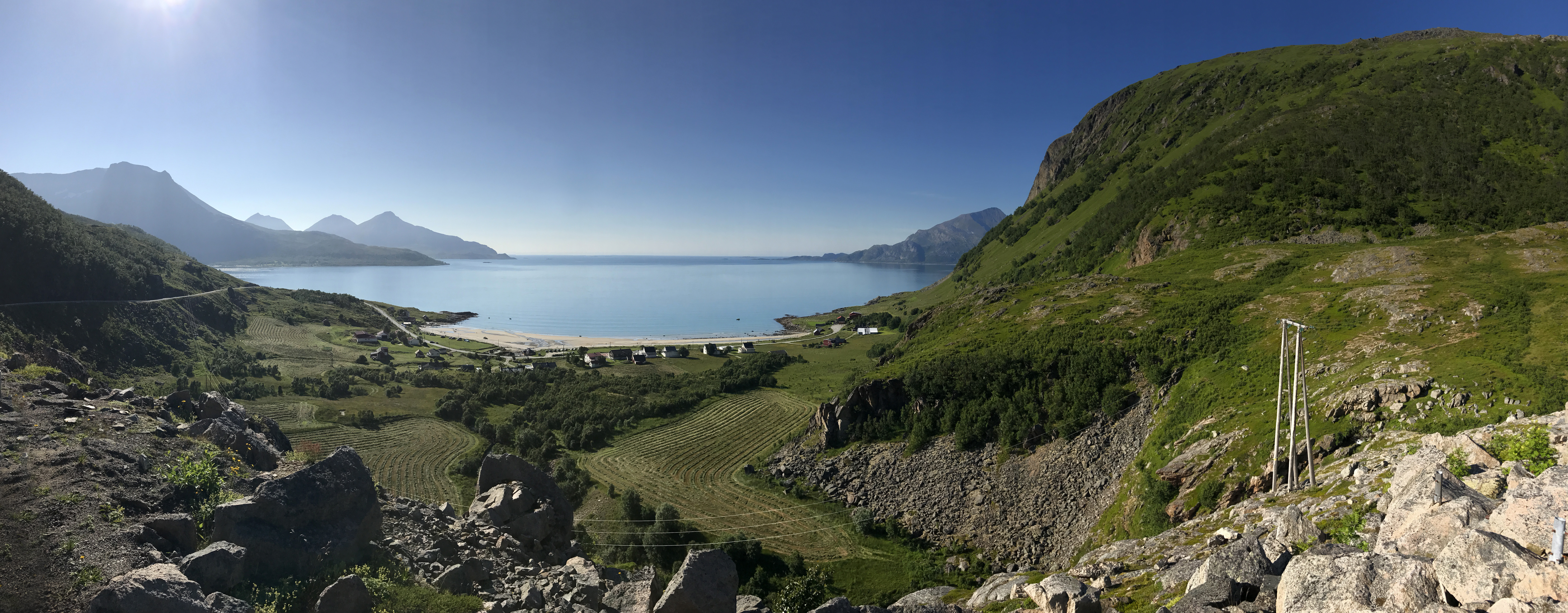 Grøtfjord in Tromsø, Norway